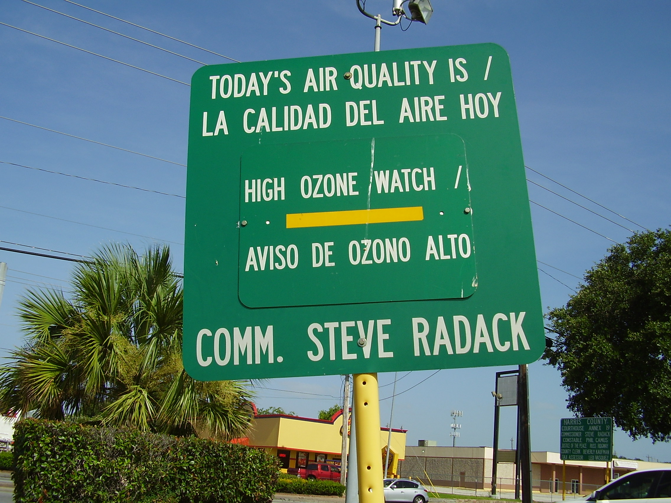 Air quality signboard indicating an ozone watch - Harris County Courthouse Annex 19 - Gulfton, Houston"Today's Air Quality IsHigh Ozone WatchComm. Steve Radack"